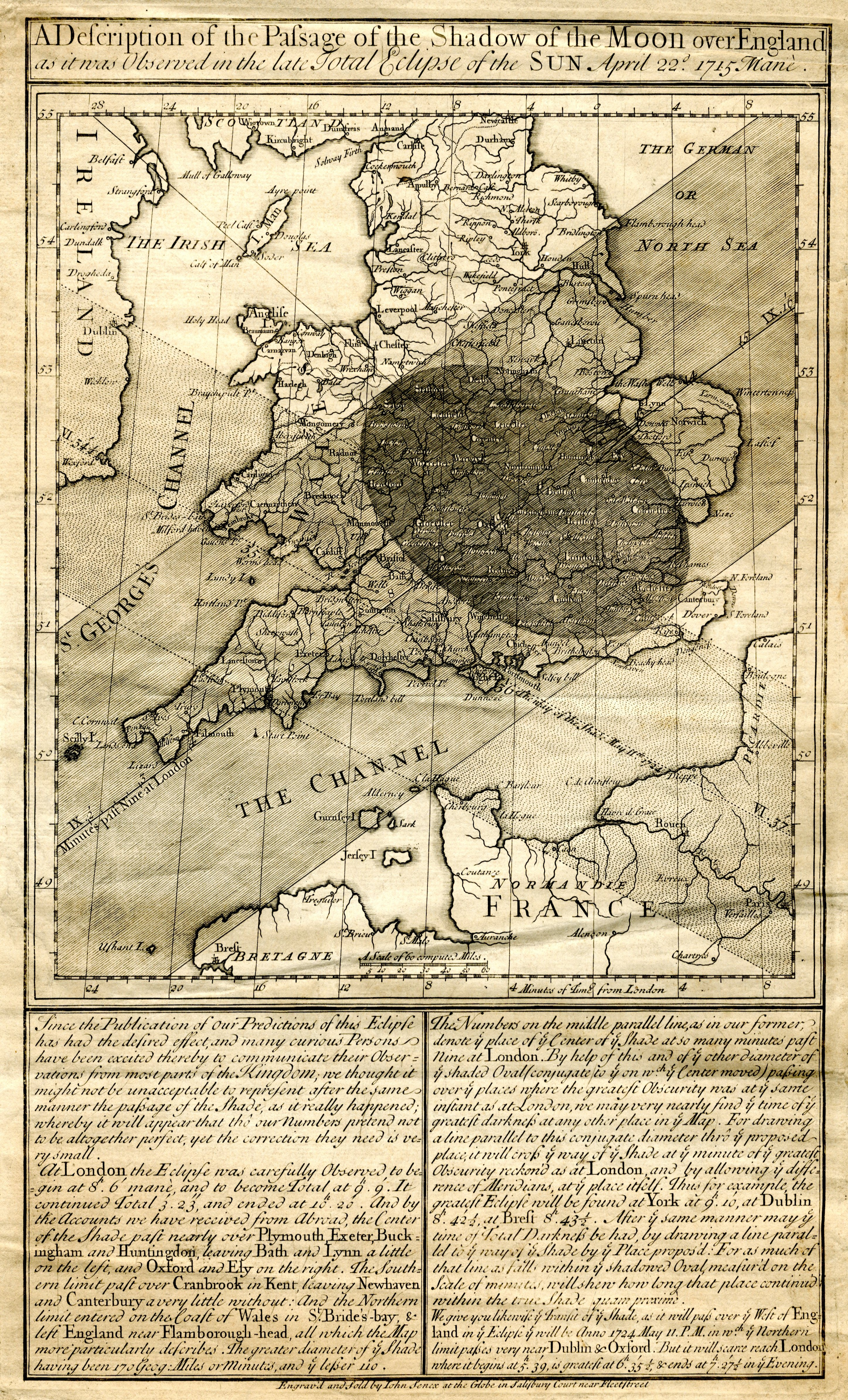 "A Description of the Passage of the Shadow of the Moon over England as it was Observed in the late Total Eclipse of the SUN April 22d 1715 Mane". With acknowledgement to "University of Cambridge, Institute of Astronomy Library" with any public use of image.